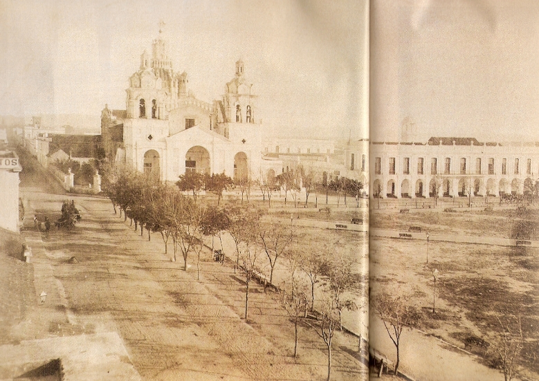 Cathedral and San Martin square. San Jeronimo street. 19th century. Cordoba, Argentina.